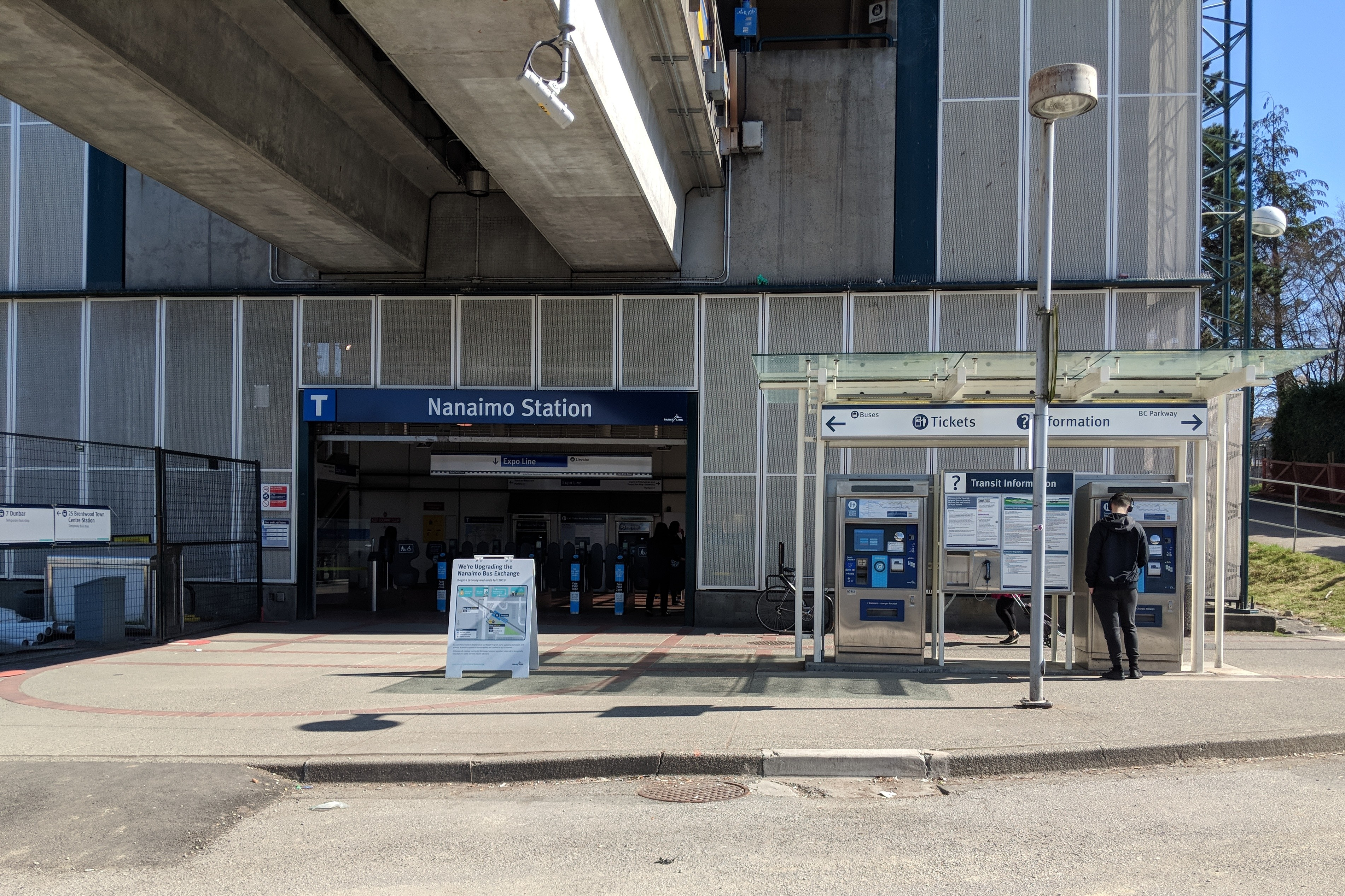 Nanaimo station entrance in March 2019.